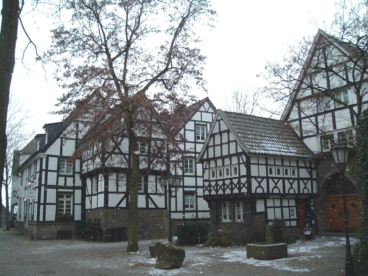 A very nice view of the old city center of Wetter (Ruhr): Five gables of half timbered houses.